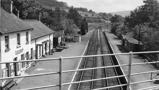 Builth Road (Low Level) Station. View SE, towards Three Cocks Junction and Brecon; ex-Cambrian, Mid-Wales line, Brecon - Three Cocks Junction - Moat Lane Junction. The station and the line throughout were closed completely on 31/12/62, but the goods yard here remained connected to the High Level line until 6/9/65.